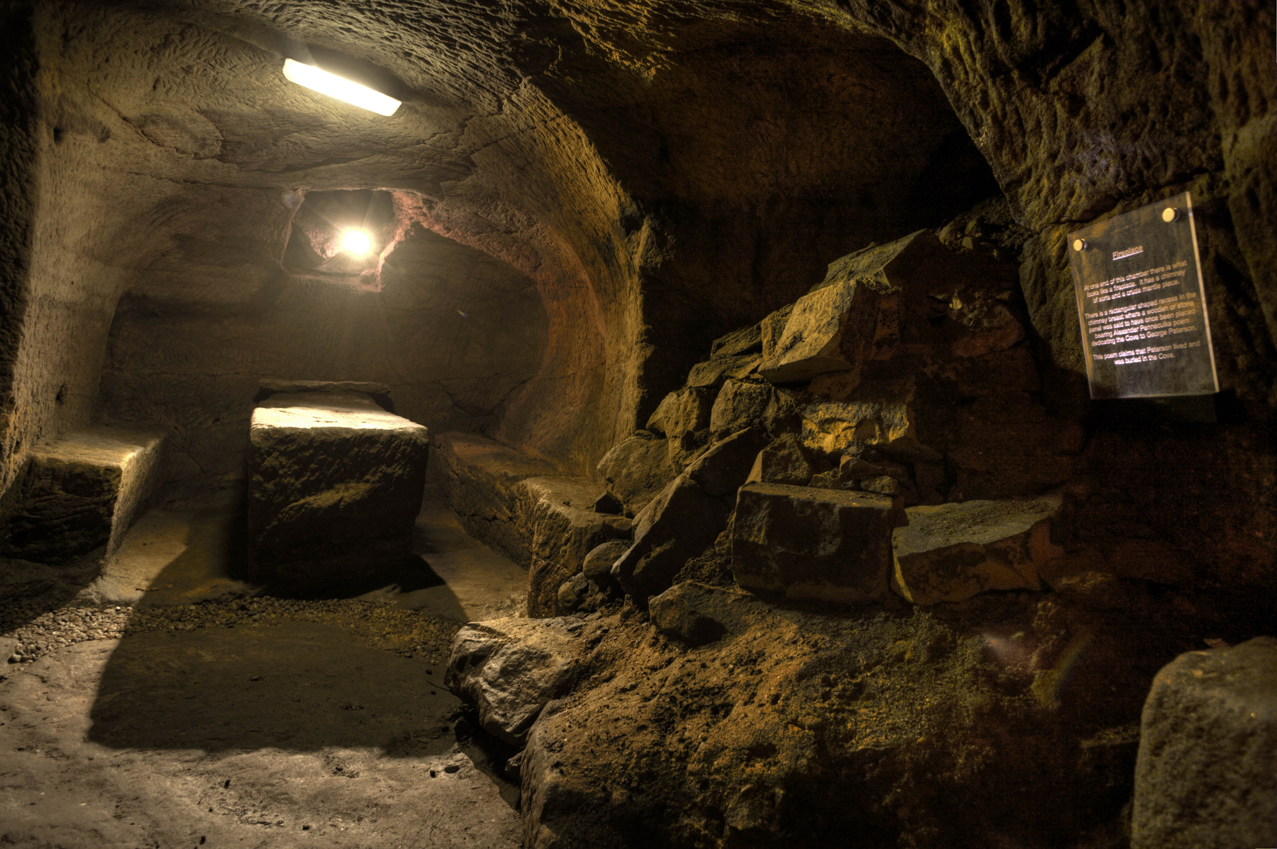 Gilmerton Cove – We are peeling back the layers of time!!!! Really wanted to see this place after seeing it on 'Cities of the Underworld'.